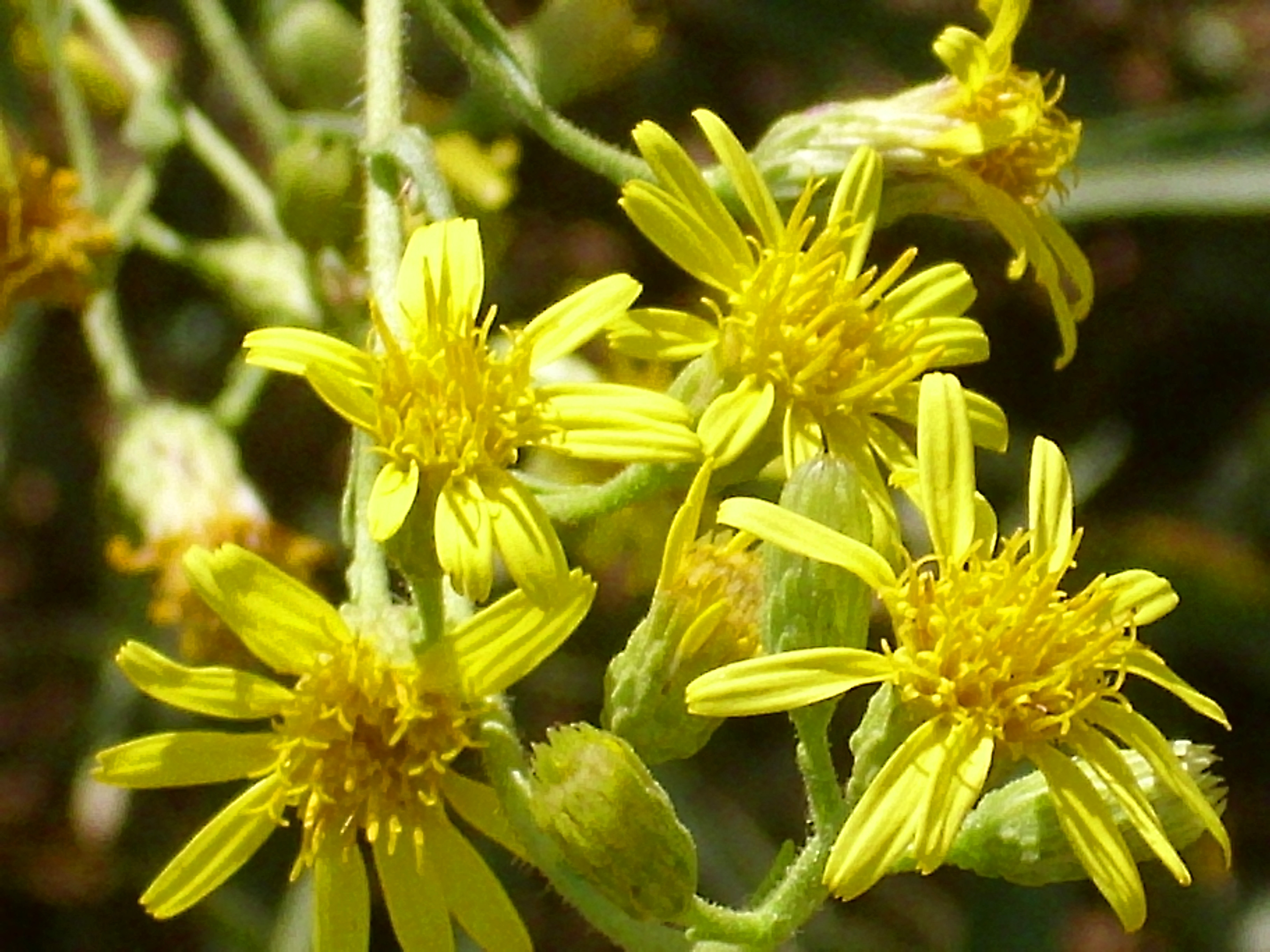 Dittrichia viscosa inflorescences close up, Dehesa Boyal de Puertollano, Spain